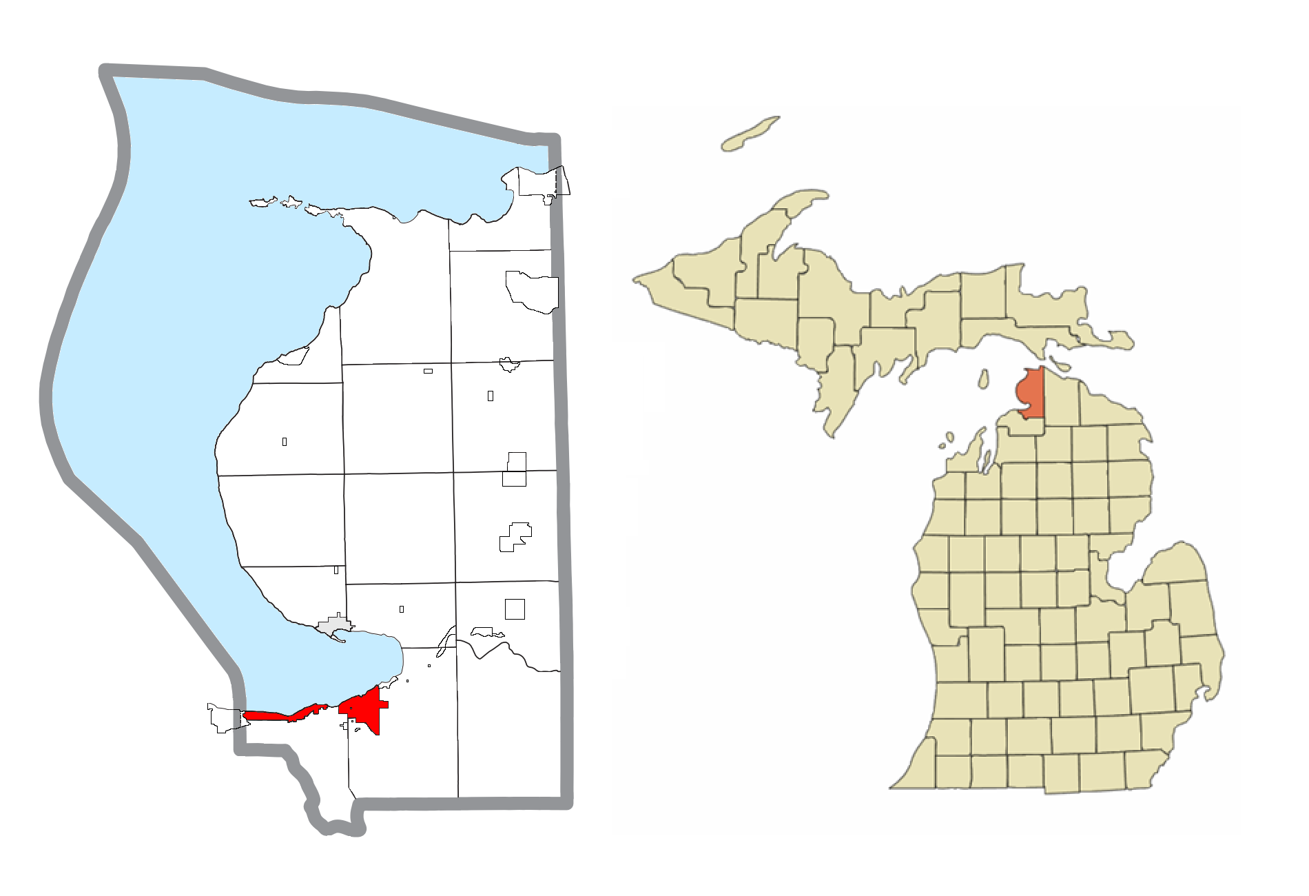 Petoskey, MI